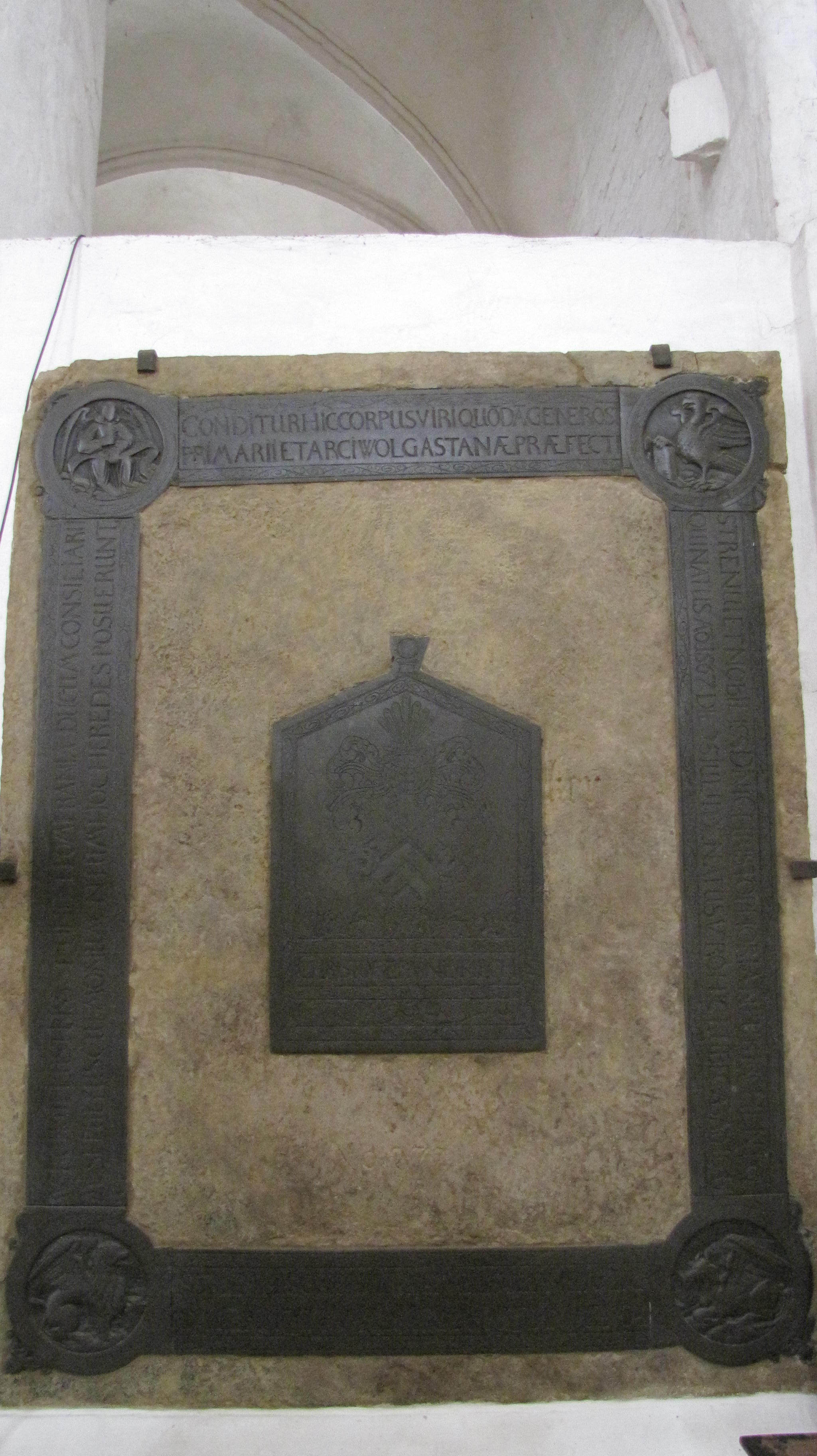 Grave stone of Christoph von Neuenkirchen/Neikirch in St. Marien, Lübeck